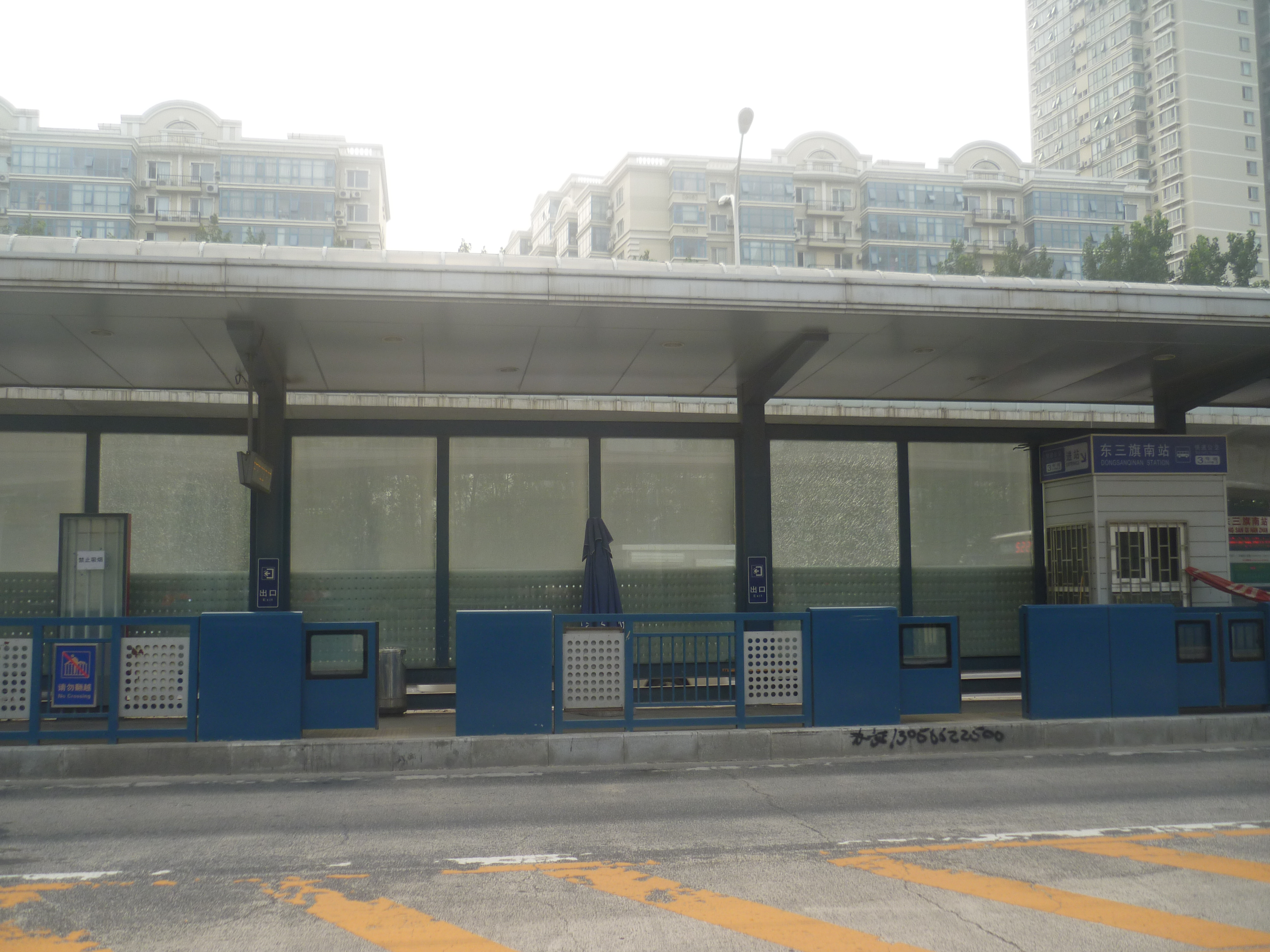 Dongsanqinan (East Third Squad South) BRT Station, Beijing.